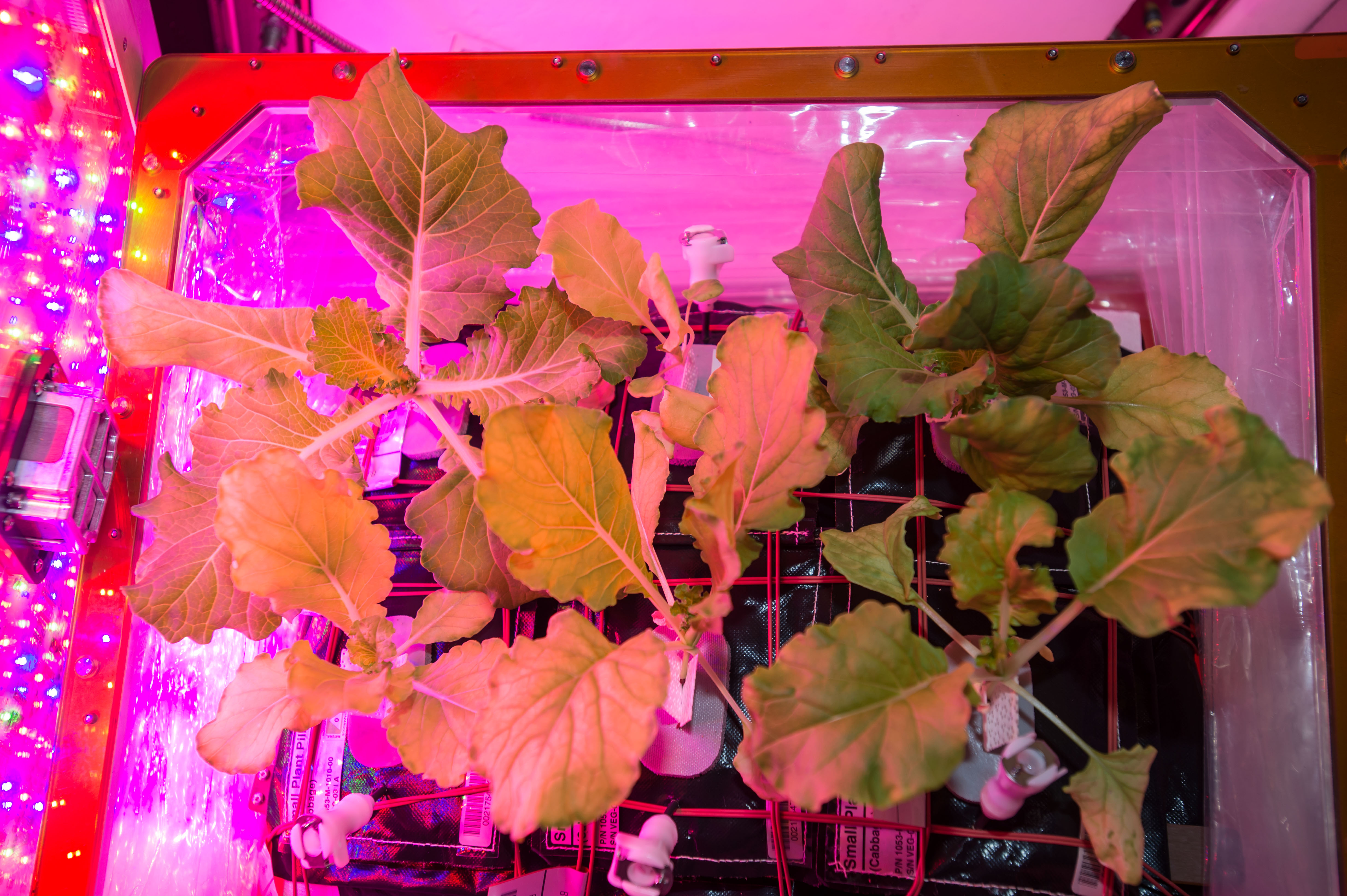 A picture of Tokyo Bekana Chinese cabbage growing in a NASA Veggie unit.